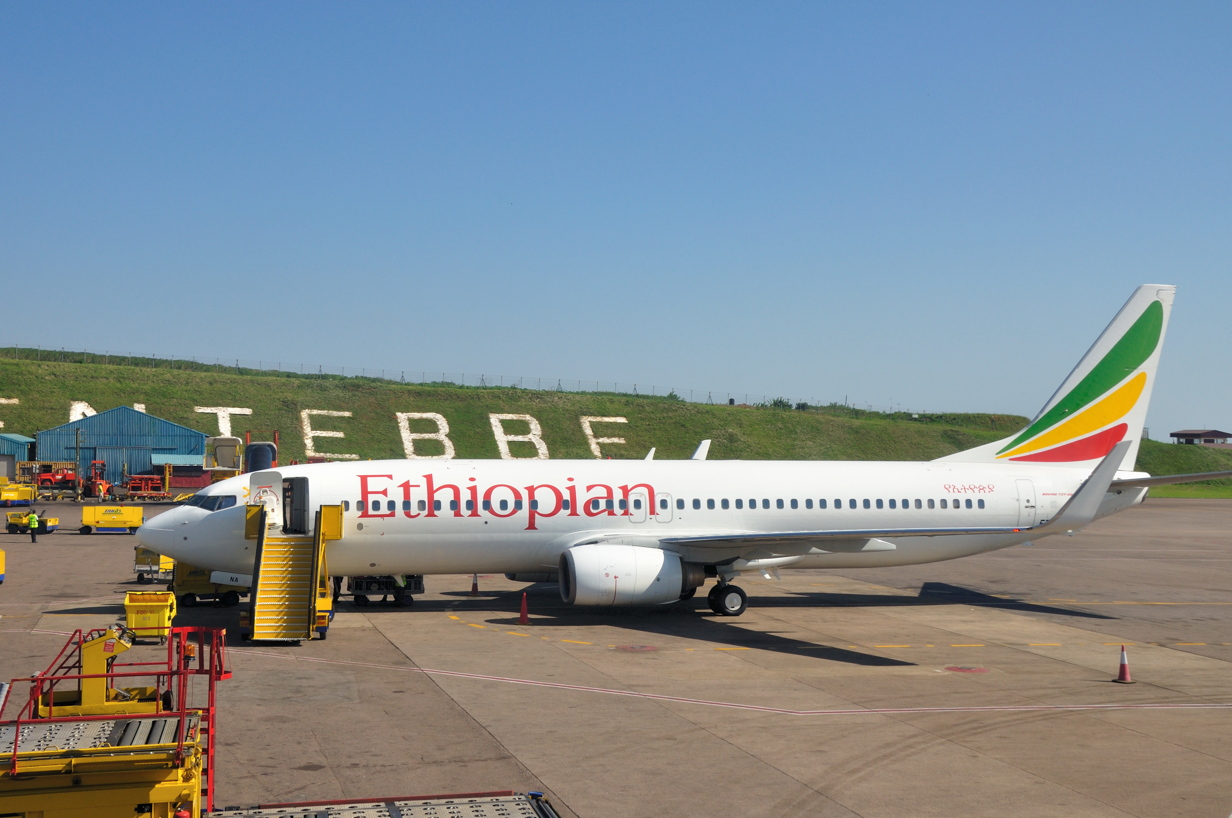 Uganda, Ethiopian Boeing 737-800 ET-ANA parked at Entebbe International Airport